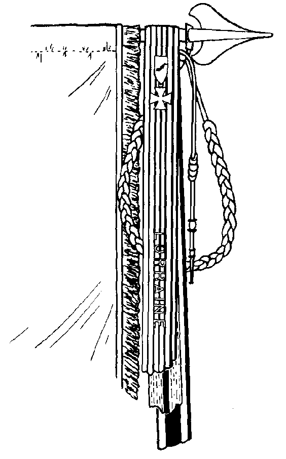 Flags, Guidons, Streamers, Tabards, and Automobile and Aircraft Plates